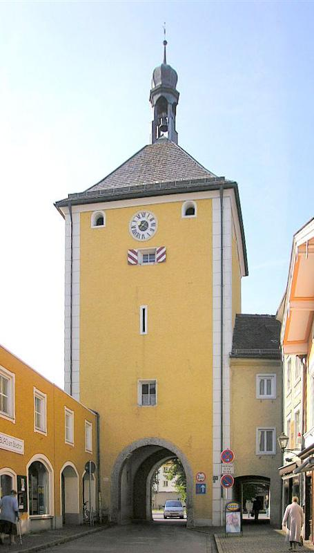 Laufen an der Salzach (Landkreis Berchtesgadener Land, Upper Bavaria, Germany). The "Salzburg gate" (Oberes Tor), seen from the north